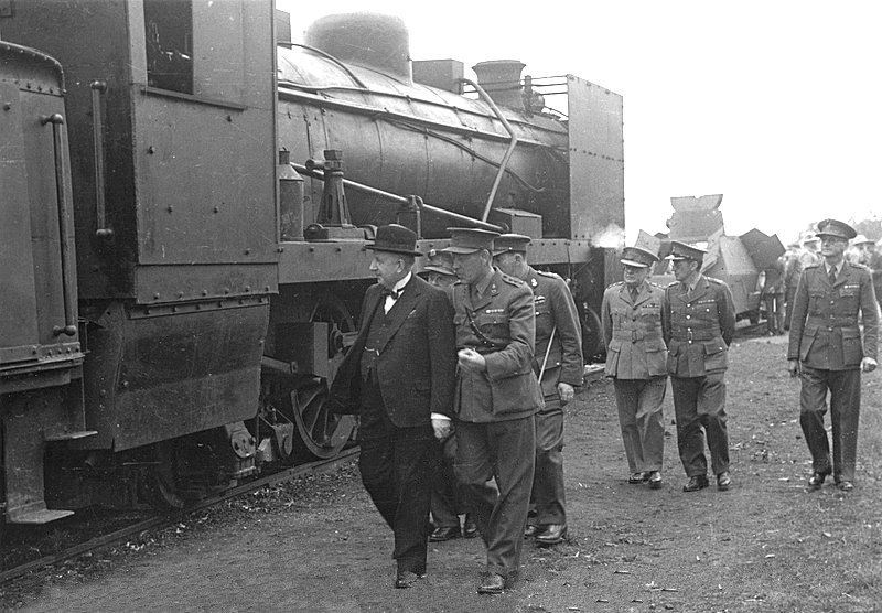 Class 4AR 1554 (4-8-2) Class 4AR no.1554 was part of an armoured train based at Mapleton Camp during WW2, here being inspected by the Hon. F.C. Sturrock, M.P., Minister of Transport